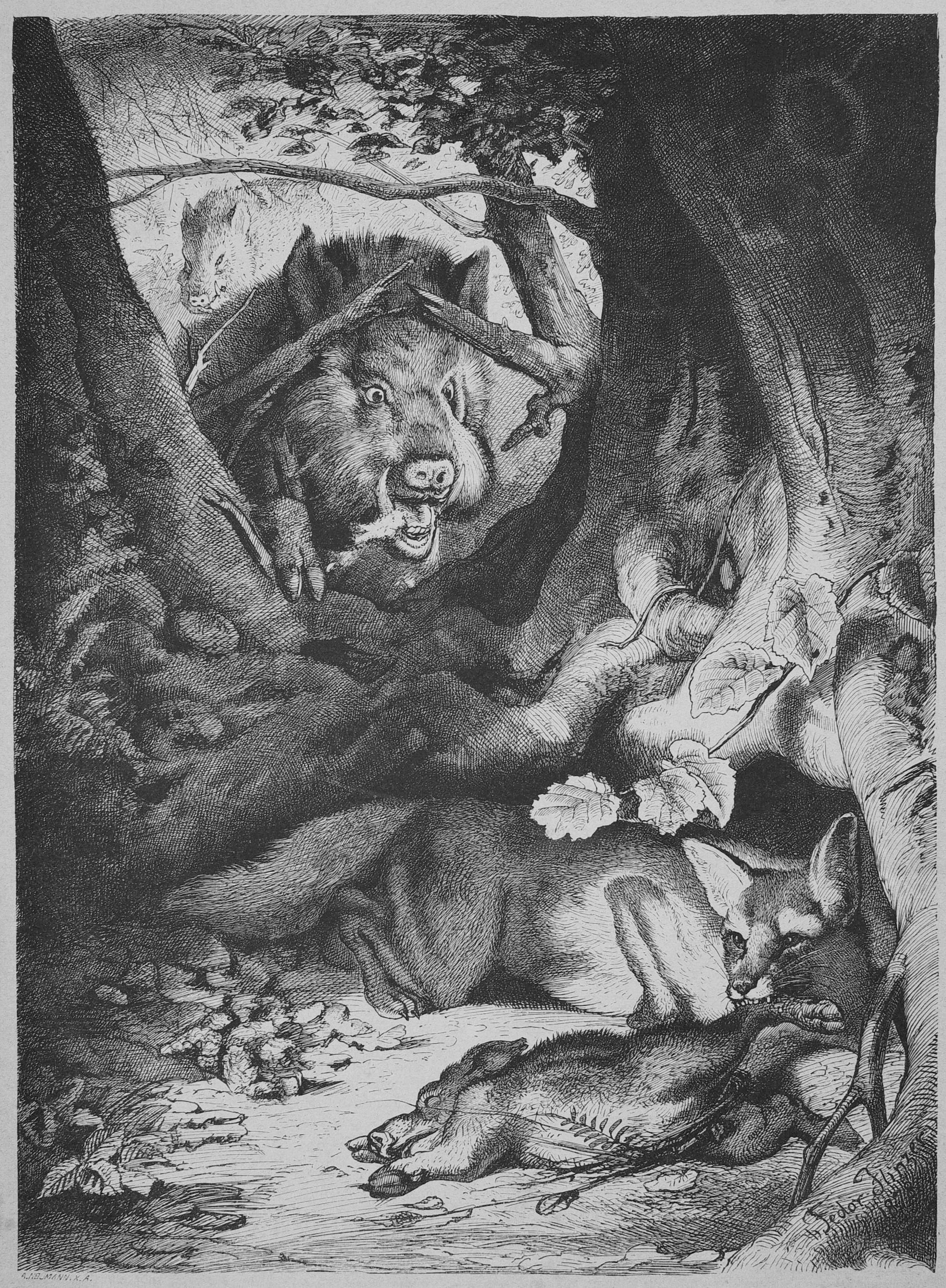 caption: "Der Keiler in Wuth. Originalzeichnung von Fedor Flinzer."